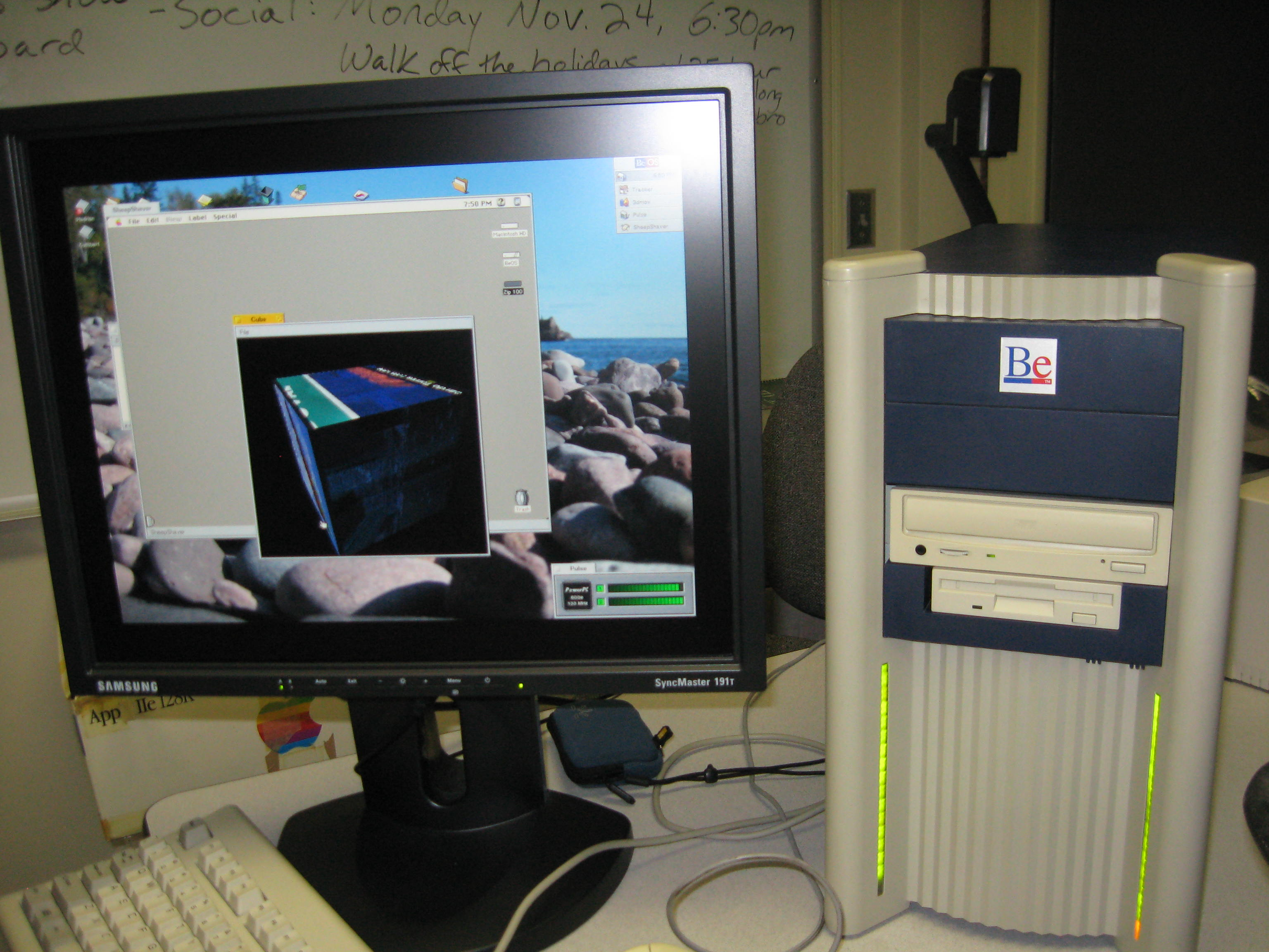 BeBox, a dual processor PC from the 1990s which ran the BeOS operating system.